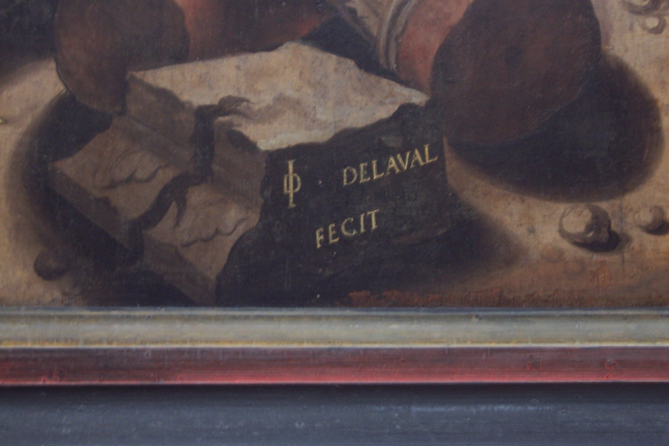 signature of painter Jost Delaval on his adoration of the shepherds in St. Katharinen, Lübeck